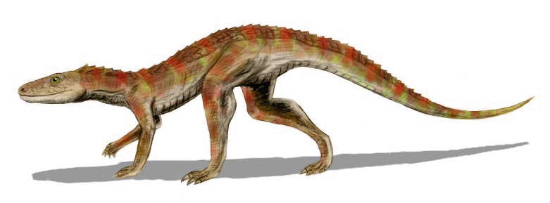 Hesperosuchus gracilis, a sphenosuchian from the Late Triassic of North America, pencil drawing